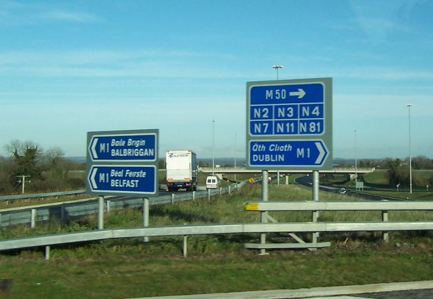 2004 photo of M1 motorway roundabout at Dublin Airport